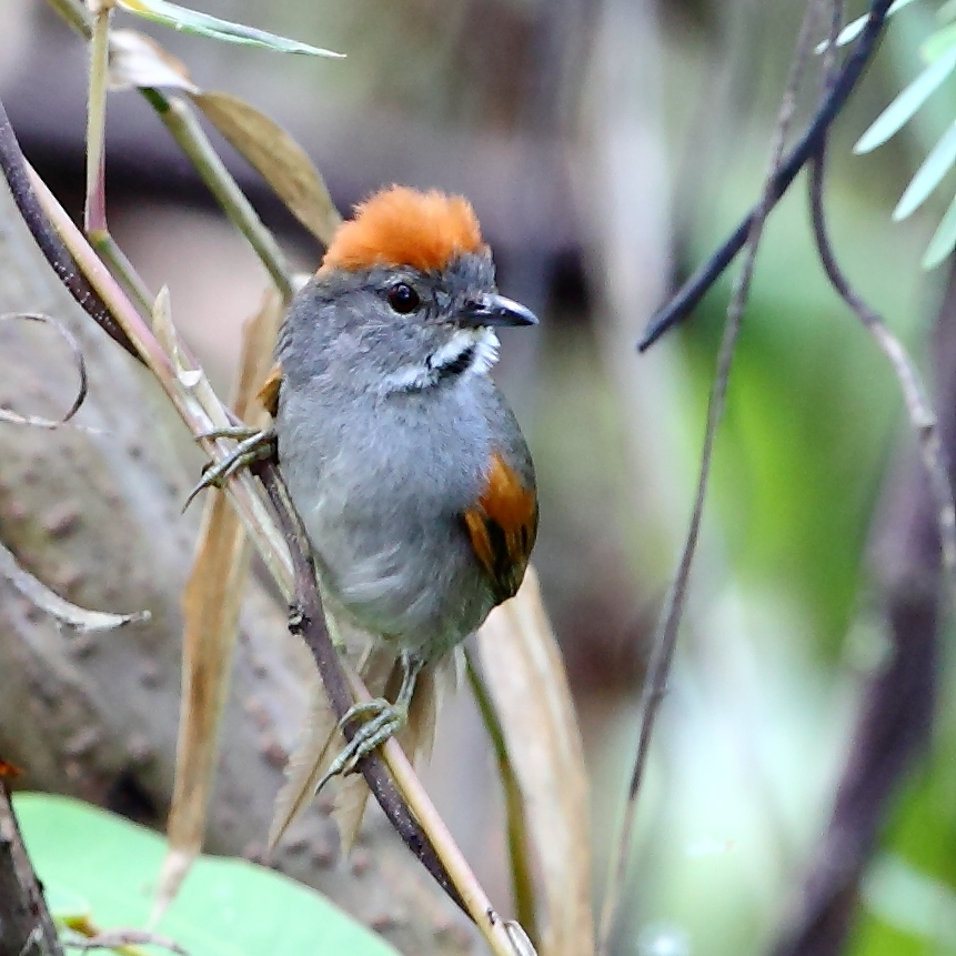 Dark-breasted spinetail at Iranduba - Amazonas - Brazil